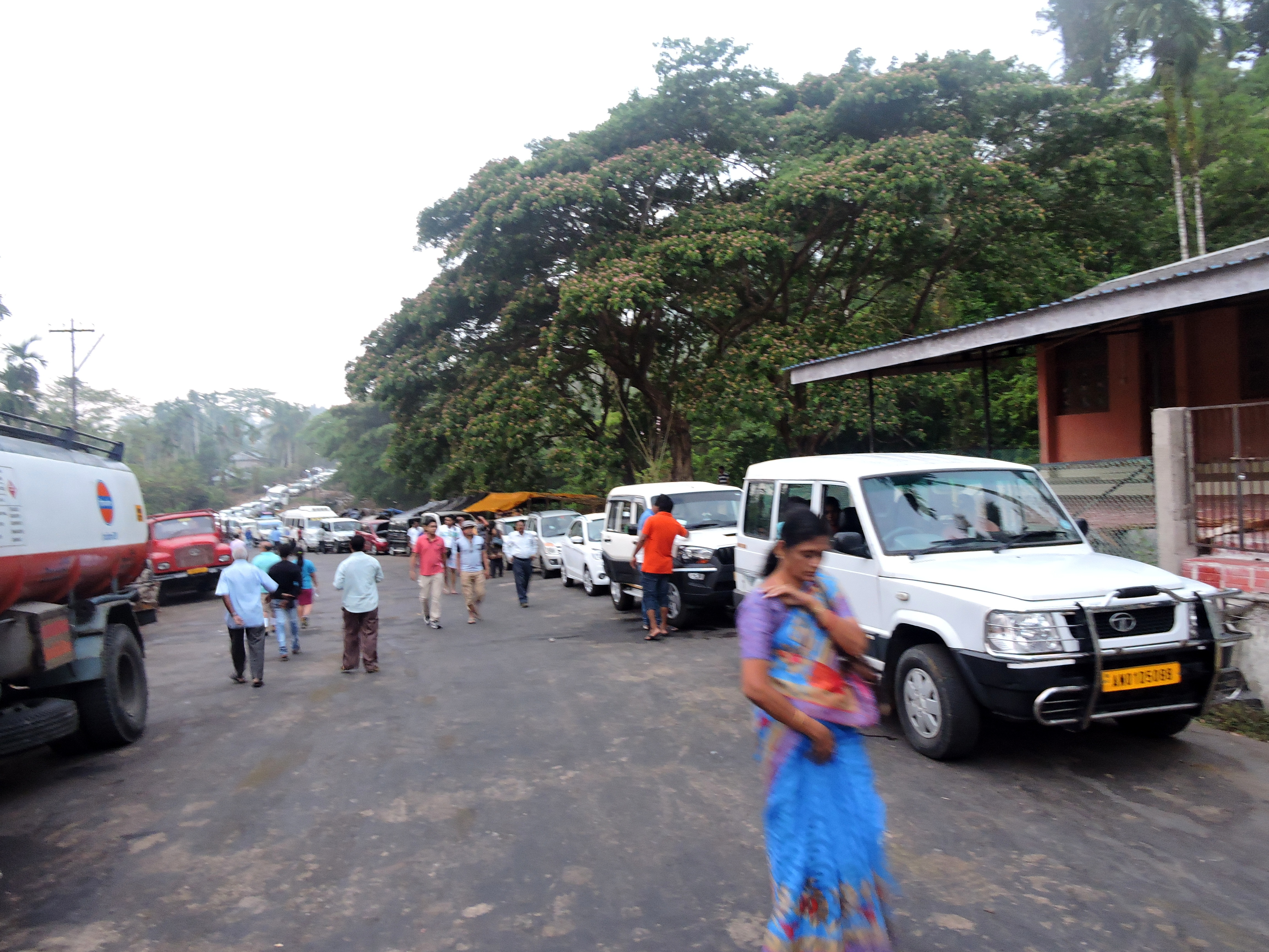 Line of vehicles for security check at jarwa reserve forest entry point, Andaman Islands, India